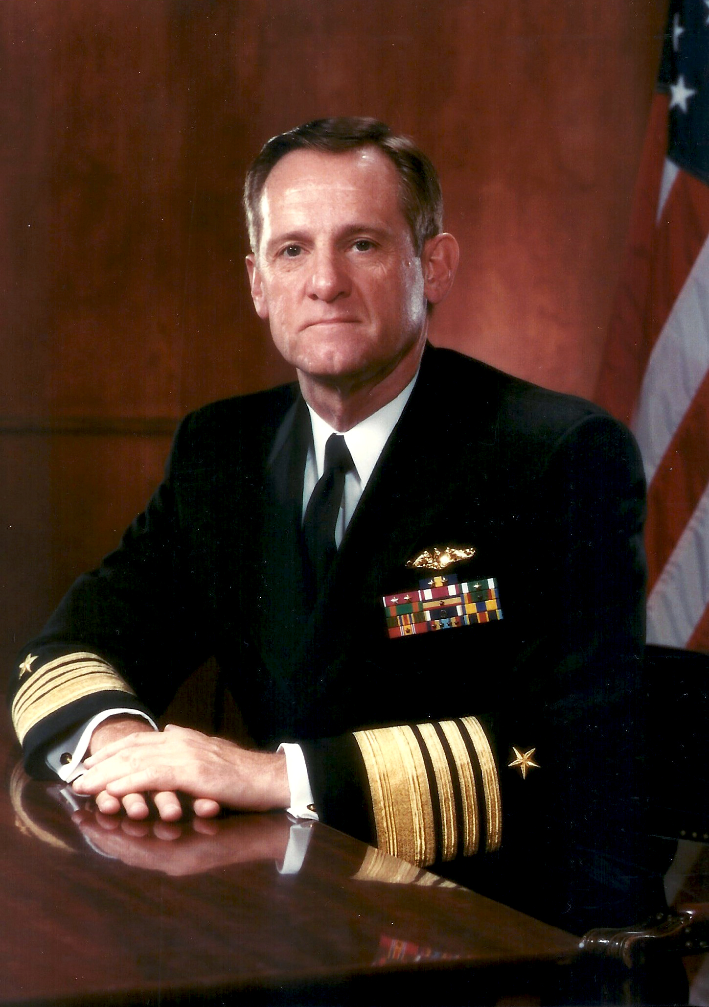 Admiral Archie R. Clemins